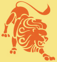 Lion representing the Leo sign in astrology.